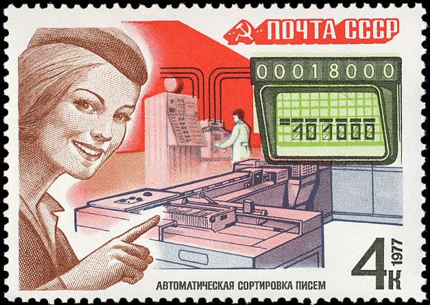 Stamp of the Soviet Union, 1977, CPA 4778. Automatic sorting of letters.